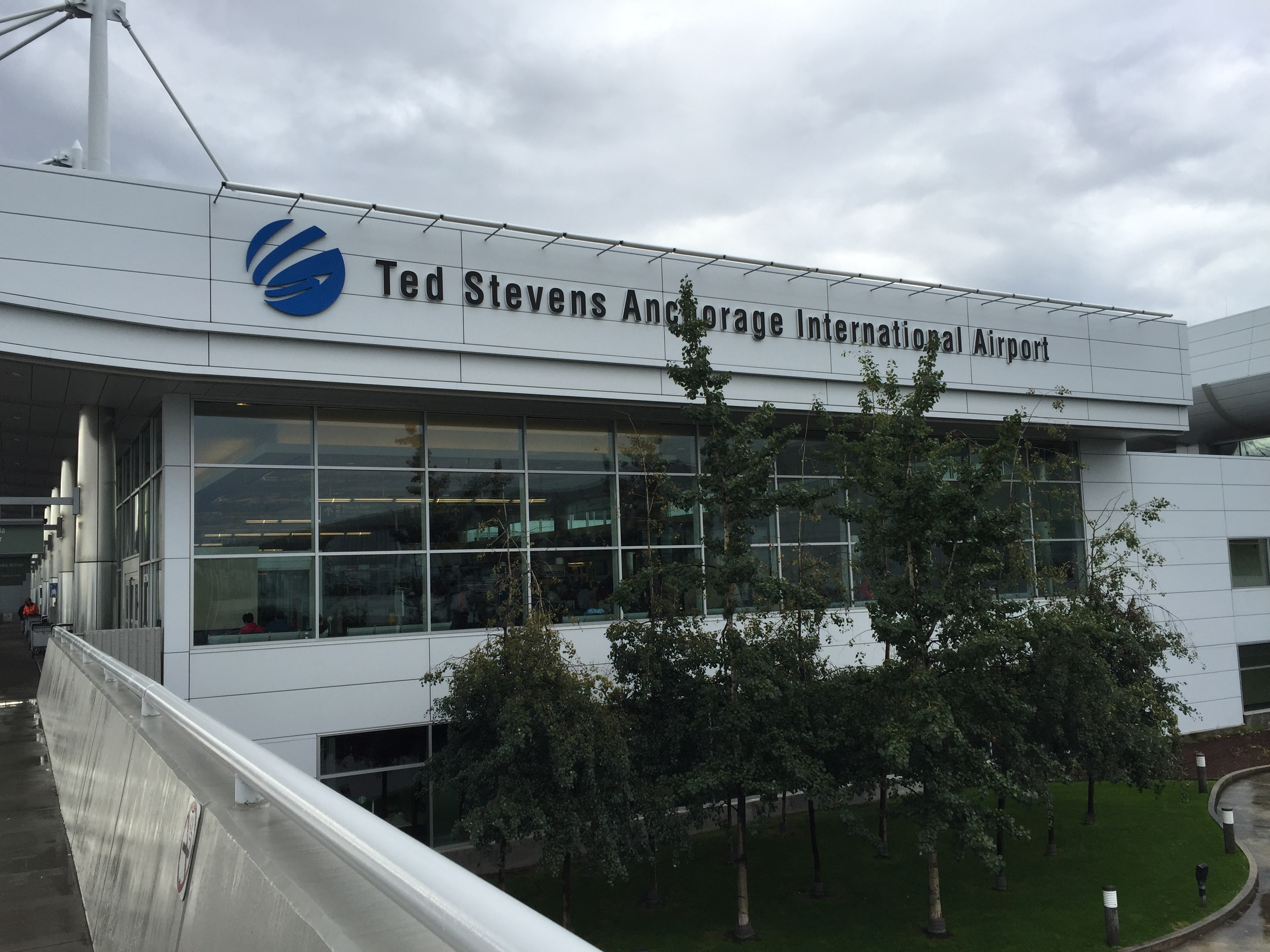 Welcome sign on South Terminal of Ted Stevens Anchorage International Airport, Alaska, USA